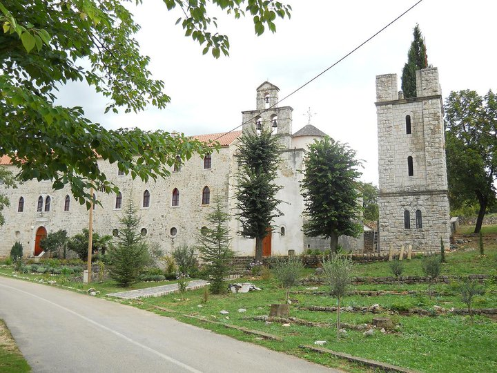 Orthodox monastery Krupa, in Croatia.